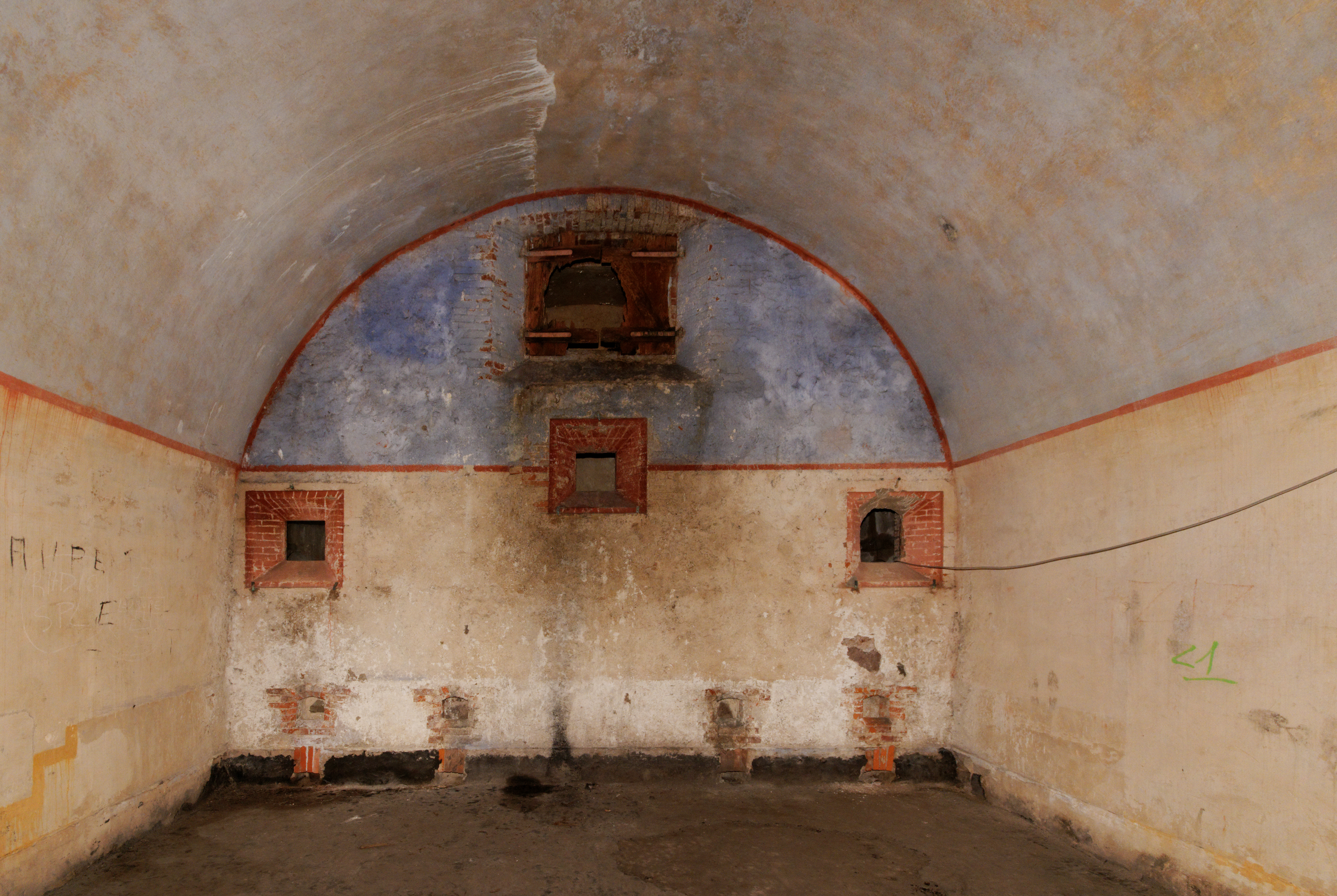 This photograph was taken with a Nikon D300 Fort du Parmont : magasin à poudre.